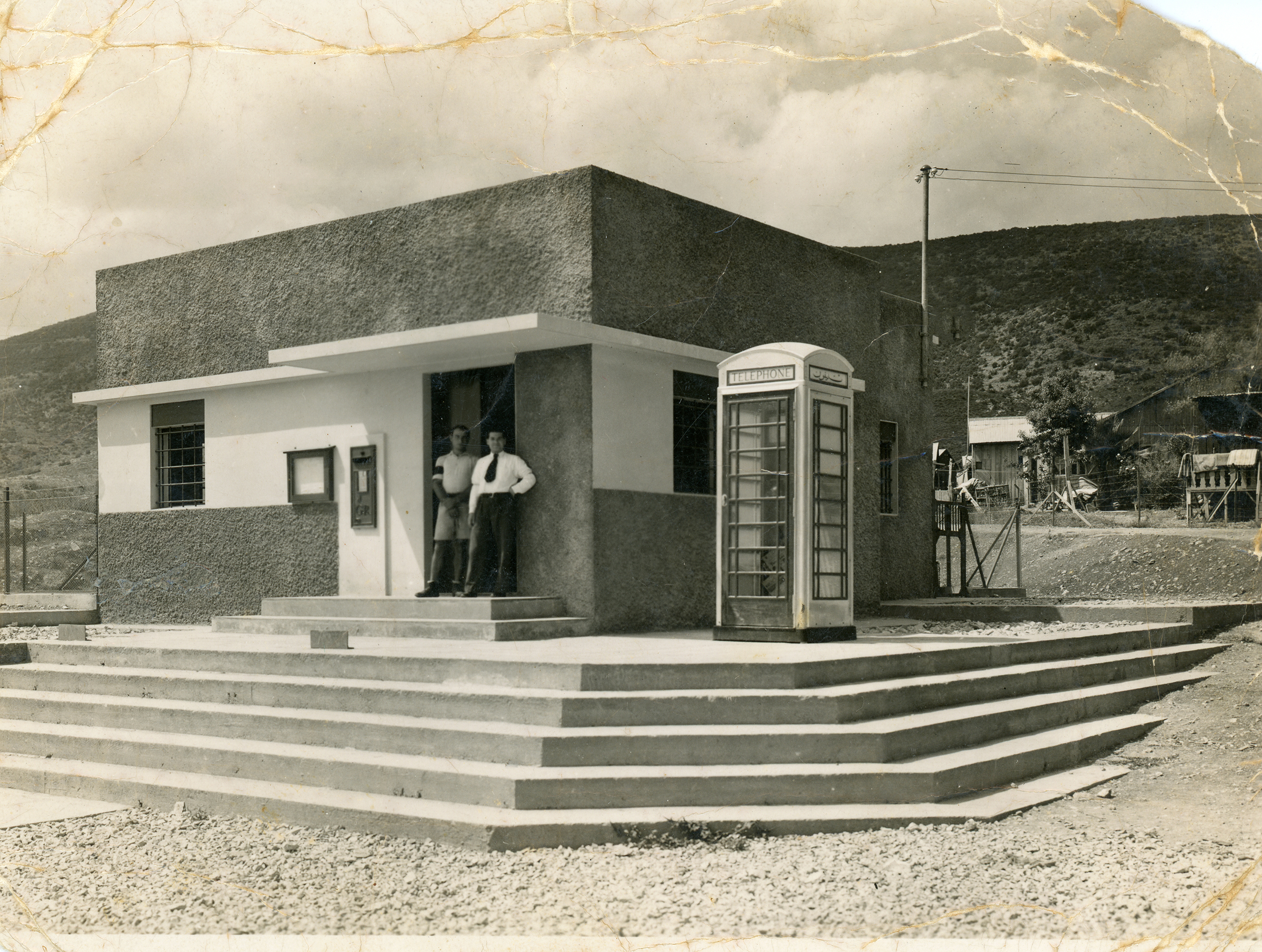 Postmaster Mordehay Elnekave (right) in front of the post office building in Nesher.